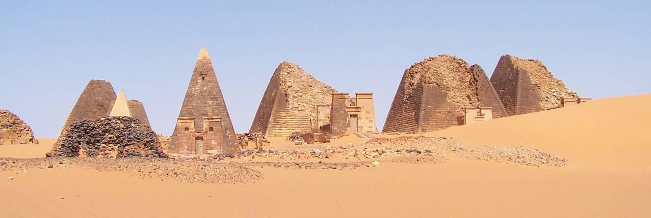 Pyramids of Meroe in Sudan. From right to left: pyramide N13,N12,N11 and N19. Then from front to back: N30, N32, N18 and N9. On the outer left is the pyramide N17.